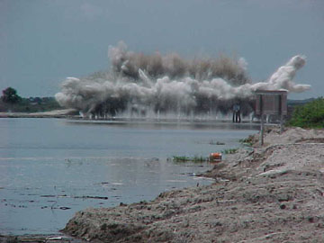 The Army Corps of Engineers destroys Structure 65B on the Kissimmee River to restore the river